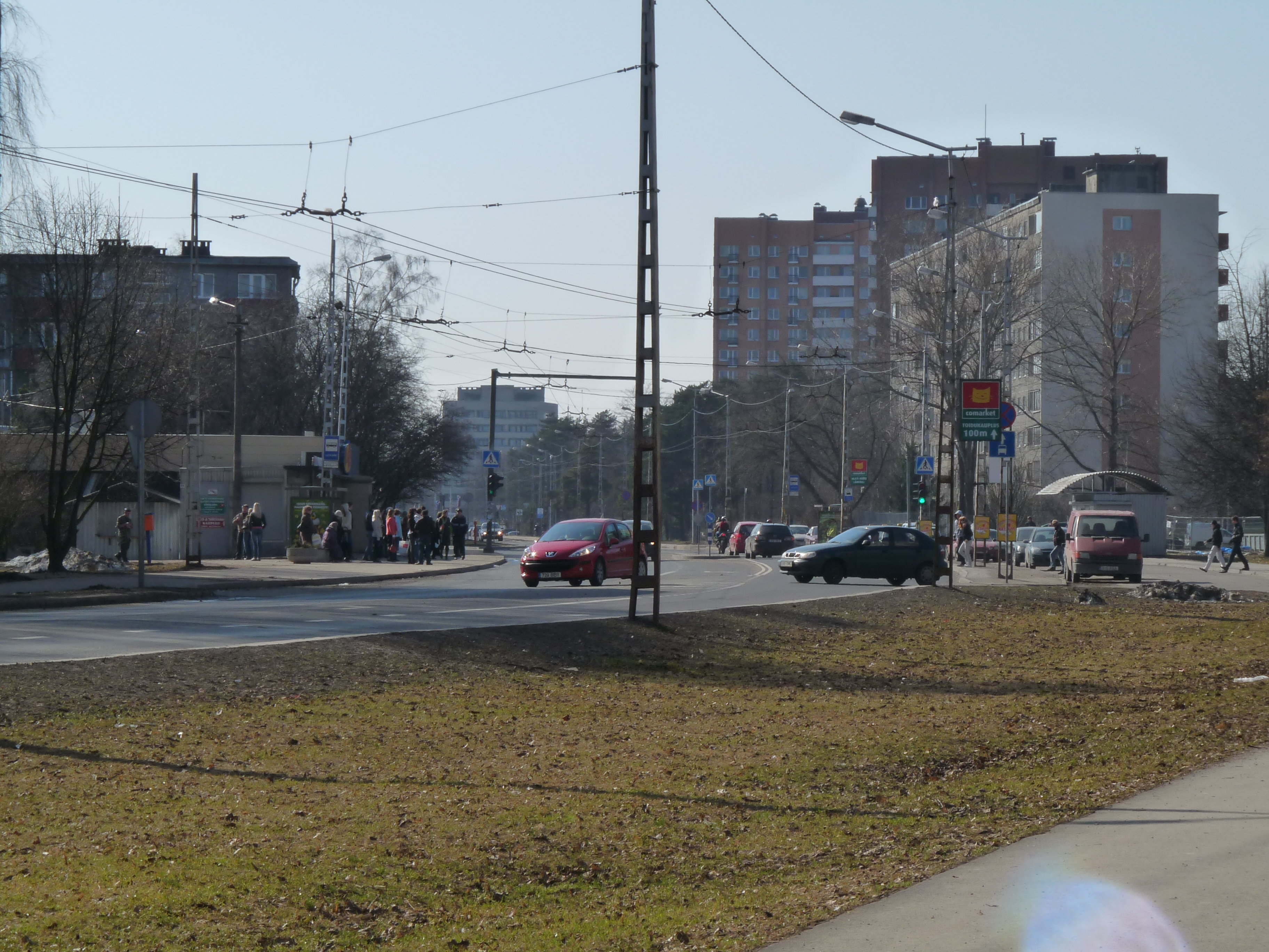 View to Szolnok bus stop